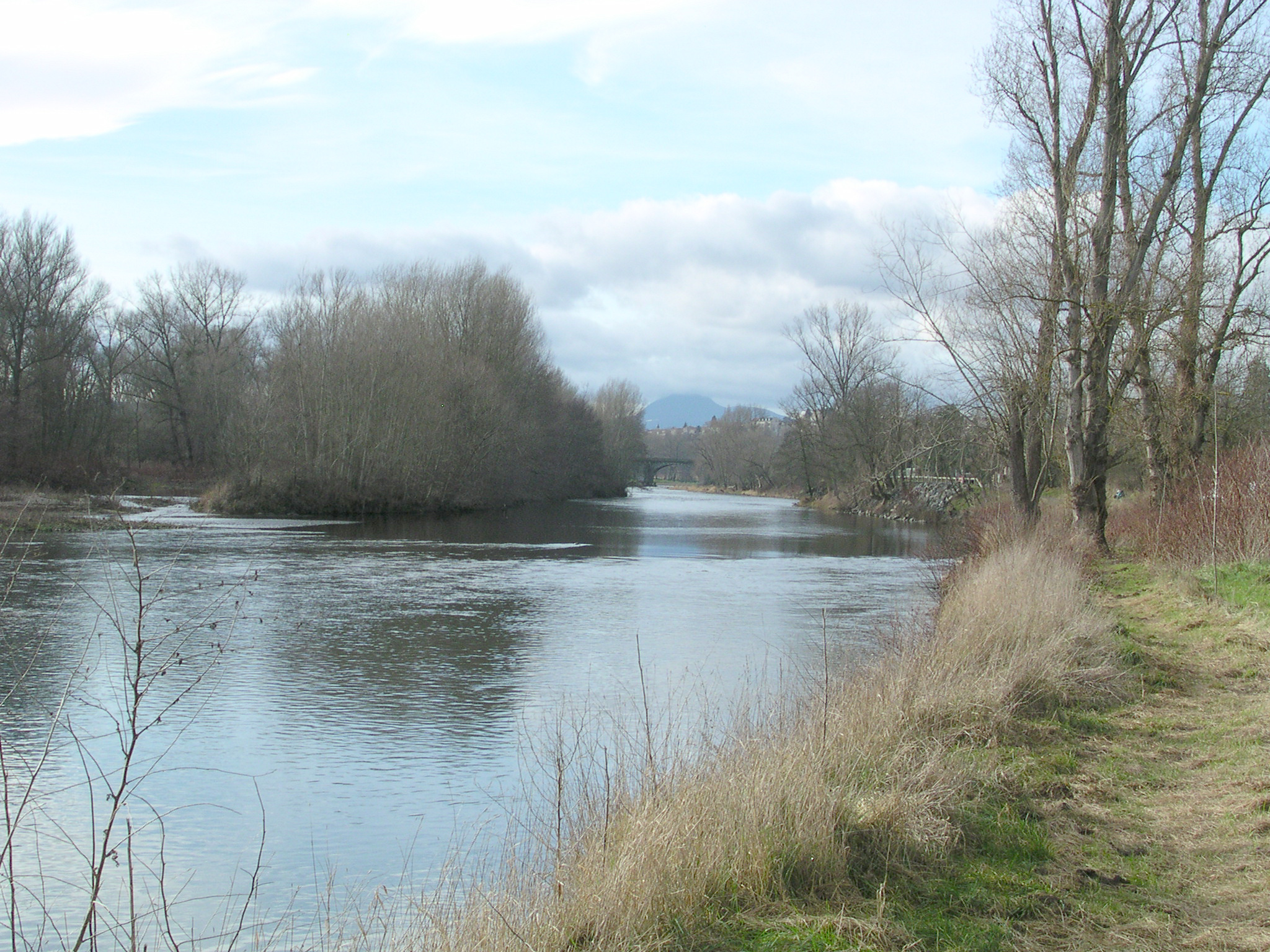 The river Allier just after Pont-du-Château (Puy-de-Dôme, France).